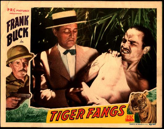 This is a movie poster for the film, Tiger Fangs. Source: personal collection Use Arno Frey